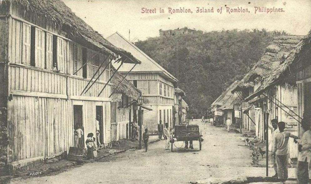 Street scene in Romblon. Originally published in the book "A Woman’s Impressions of the Philippines" by Mary H. Fee, published on 26 March 1910 by A.C. McClurg & Co. at The University Press, Cambridge, USA